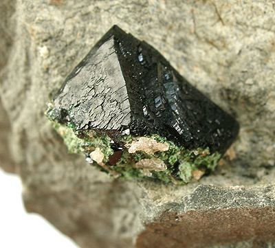 Libethenite Locality: Luiswishi Mine, Lubumbashi (Elizabethville), Southern area, Katanga Copper Crescent, Katanga (Shaba), Democratic Republic of Congo (Zaïre) (Locality at ) Size: 5.6 x 4.8 x 3.0 cm. A 1.5 cm, highly lustrous, very sharply terminated, dark green libethenite crystal is aesthetically set in a vug in this excellent specimen from an uncommon D.R.C. locale - the Luiswishi Mine. This is an extremely large, very uncommon and very well formed libethenite from any mine in the Congo. Ex. Wes Parker Collection.